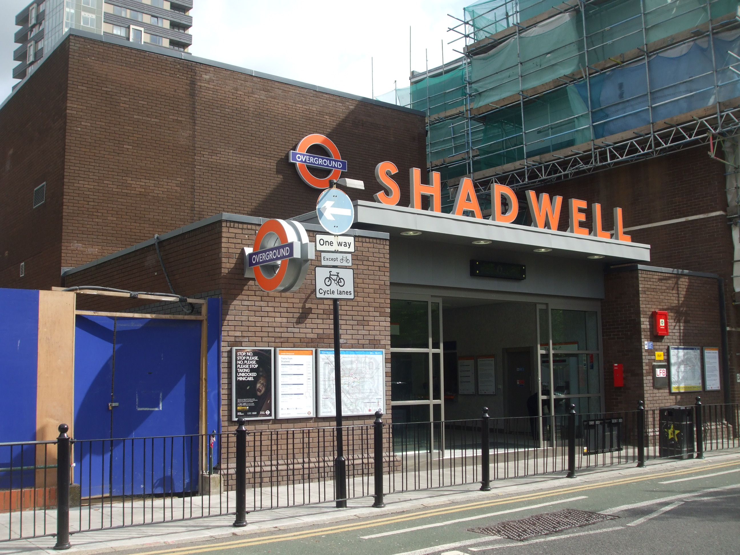 Shadwell station on the East London Line, southern entrance a few days after re-opening as part of the London Overground in April 2010.